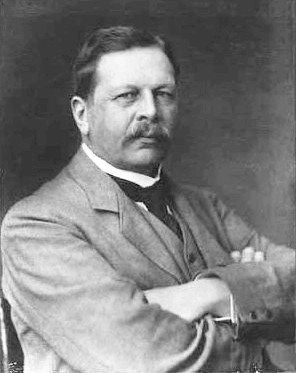 Danish industrialist, engineer, and politician, MP Alexander Foss (1858-1925)